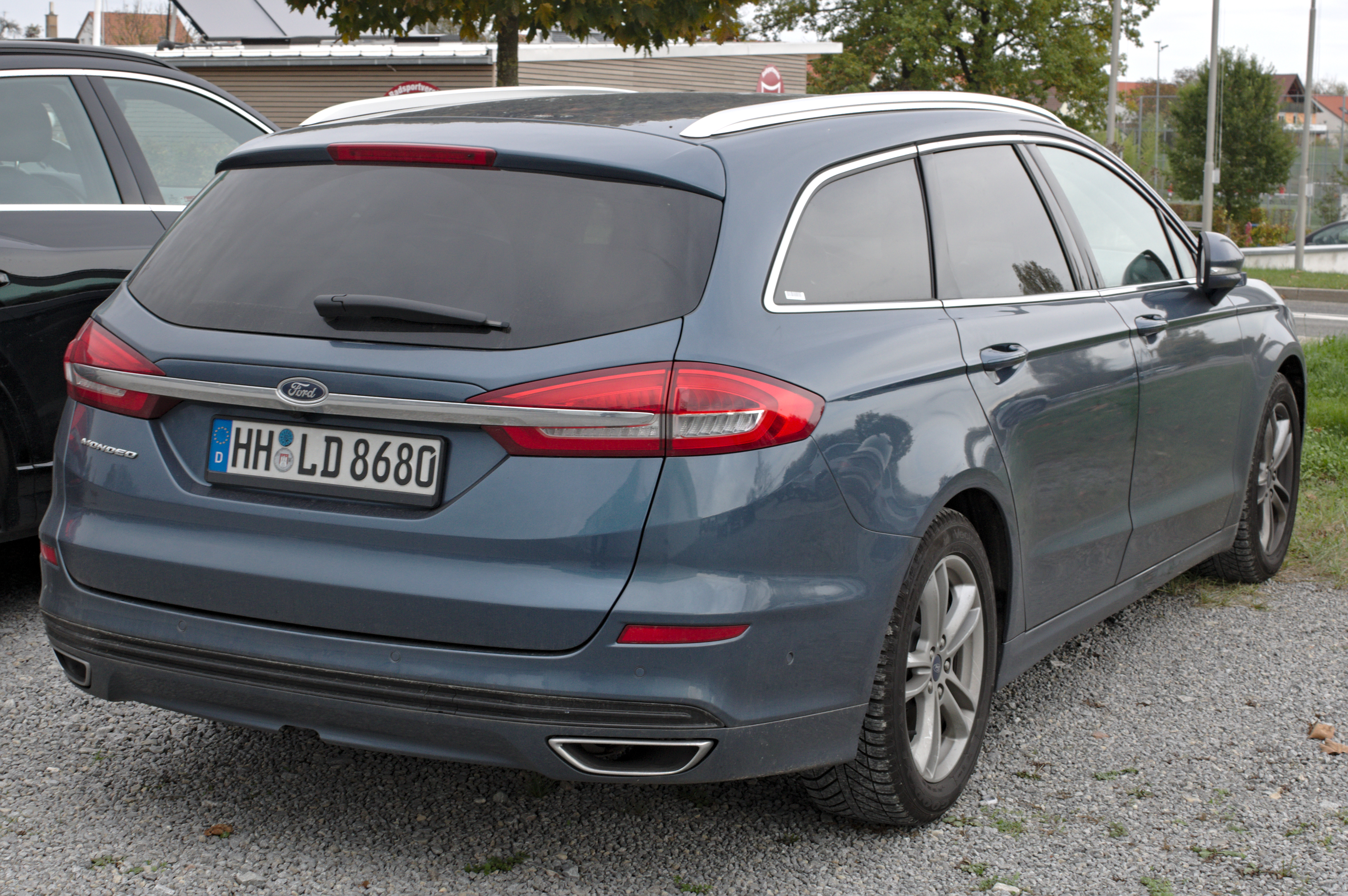 Ford_Mondeo_Mk_V_(estate) in Stuttgart-Vaihingen